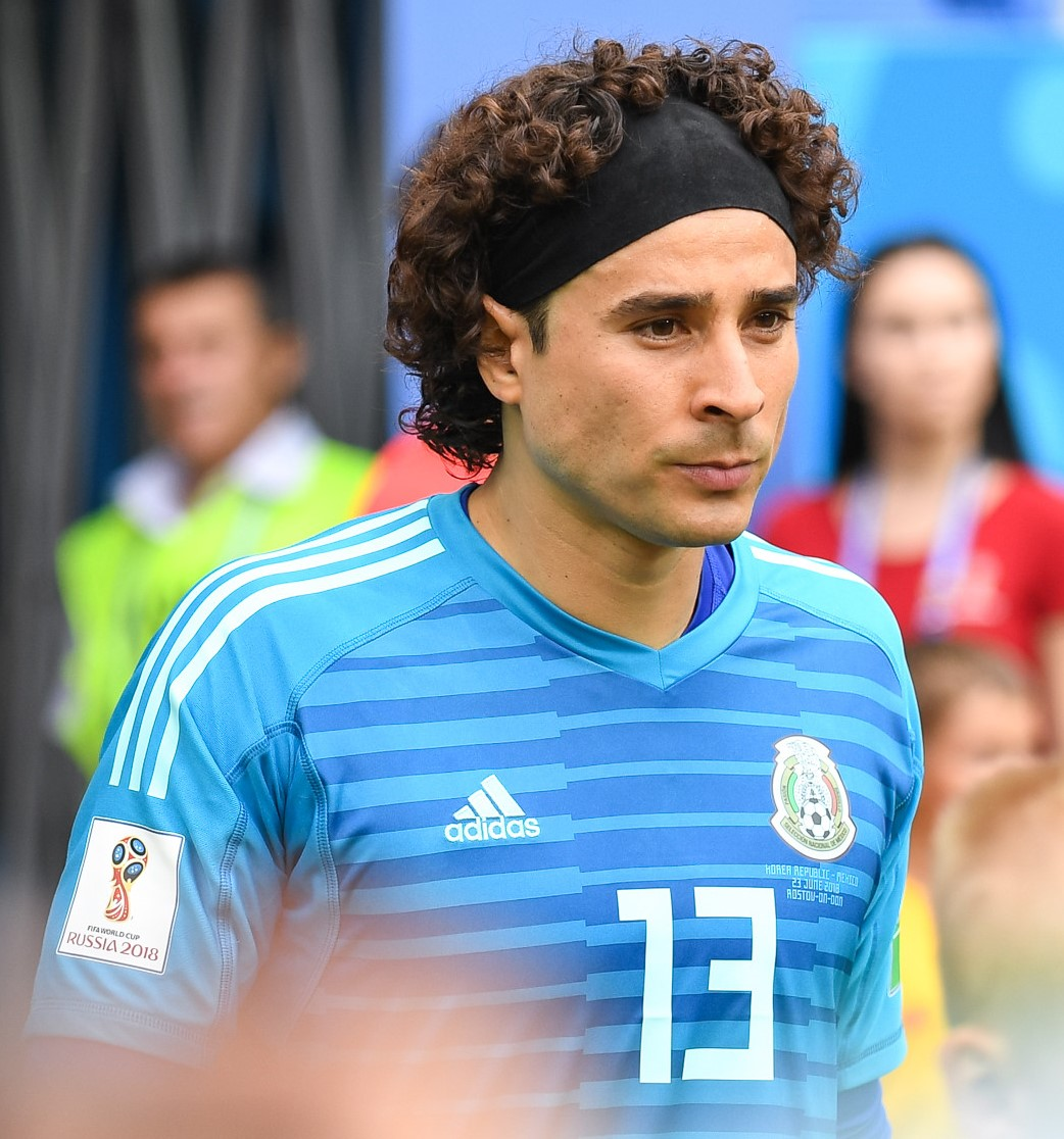 Francisco Guillermo Ochoa